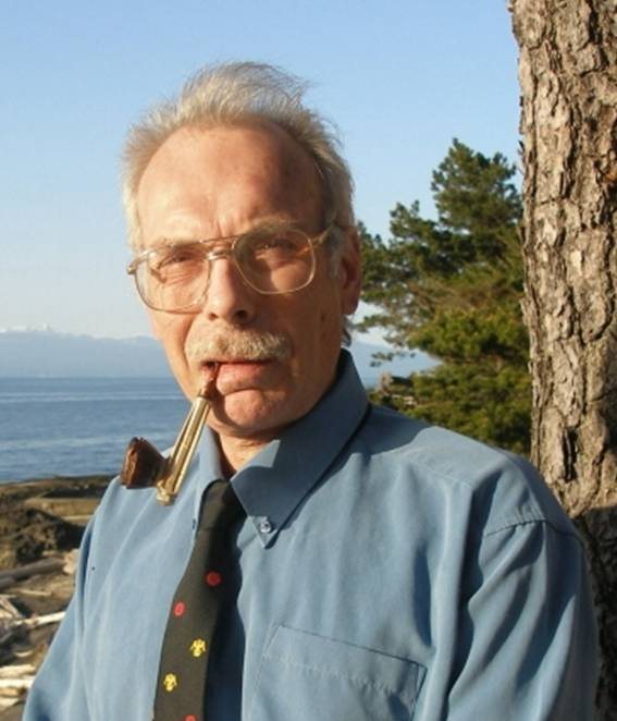 Photo of Paul S. Wesson